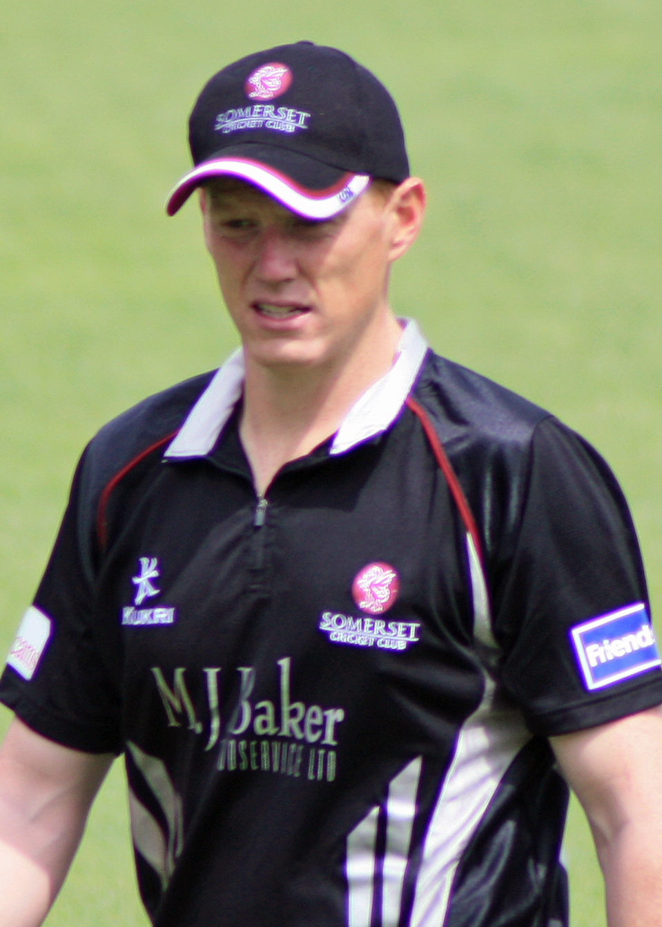 Kevin O'Brien playing for Somerset in 2012.